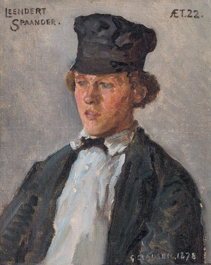 Leendert Spaander oil on canvas 28 x 23 cm inscribed t.: Leendert Spaander AET.22. signed b.r.: G CLAUSEN. 1878